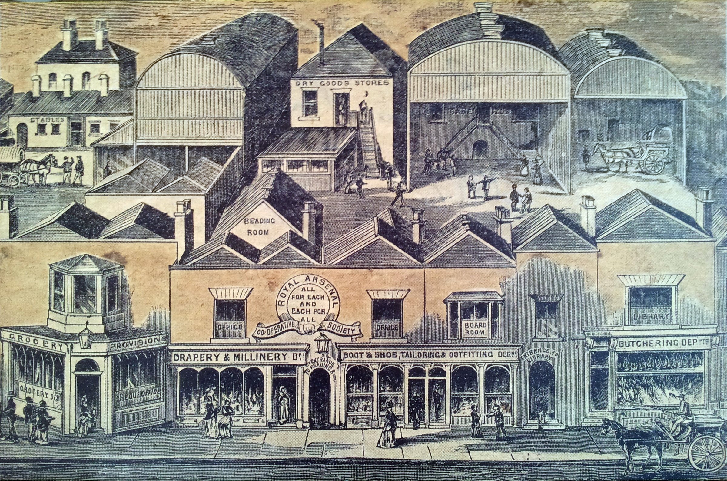 Postcard(?) of Royal Arsenal Co-op buildings in Powis Street, Woolwich, engraving from 1884. Photographed at an exhibition in Greenwich Heritage Centre in Woolwich, southeast London, UK.